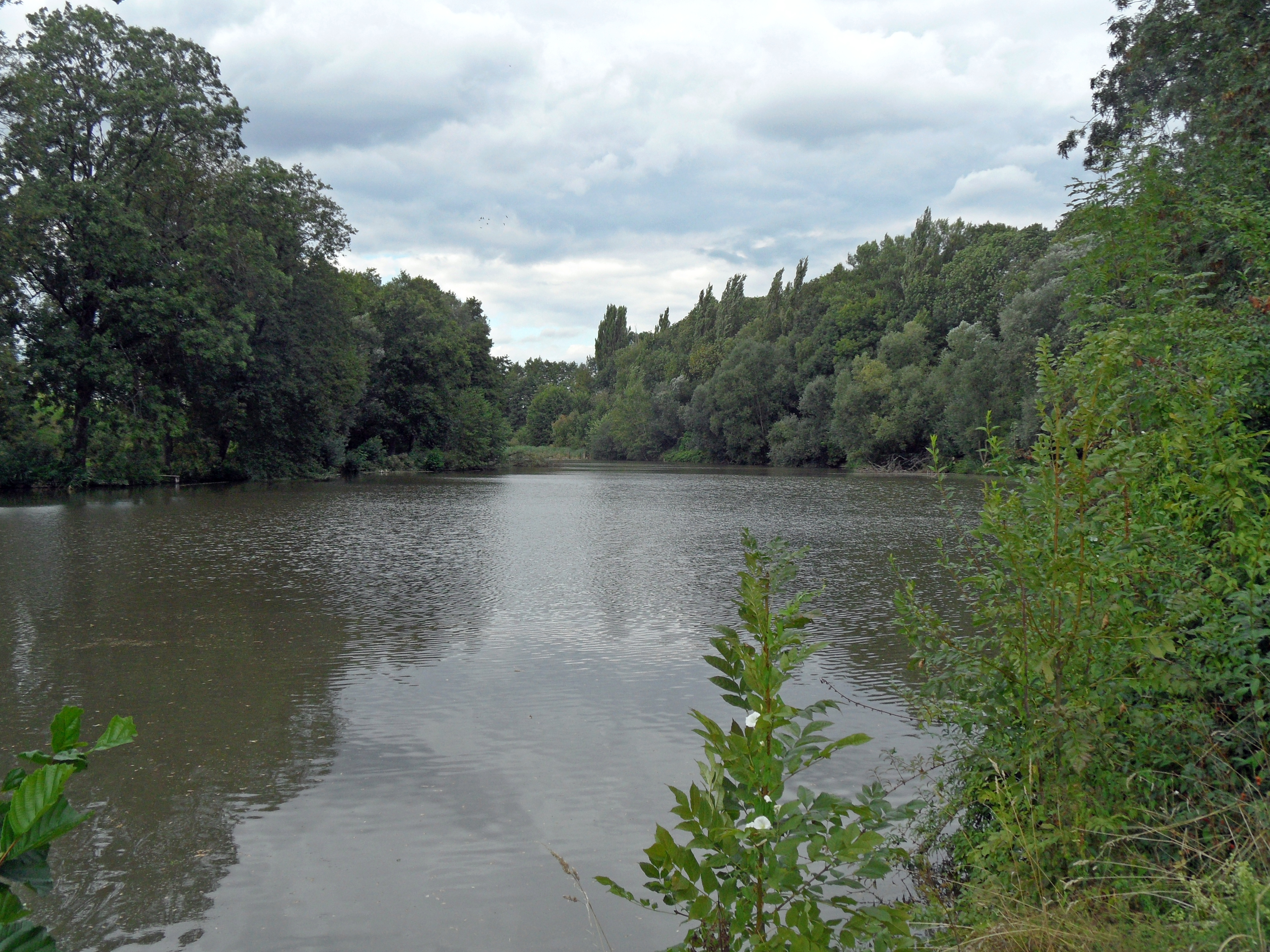 Dolní_Dolce J. Pond in the Village. Náchod District, the Czech Republic.